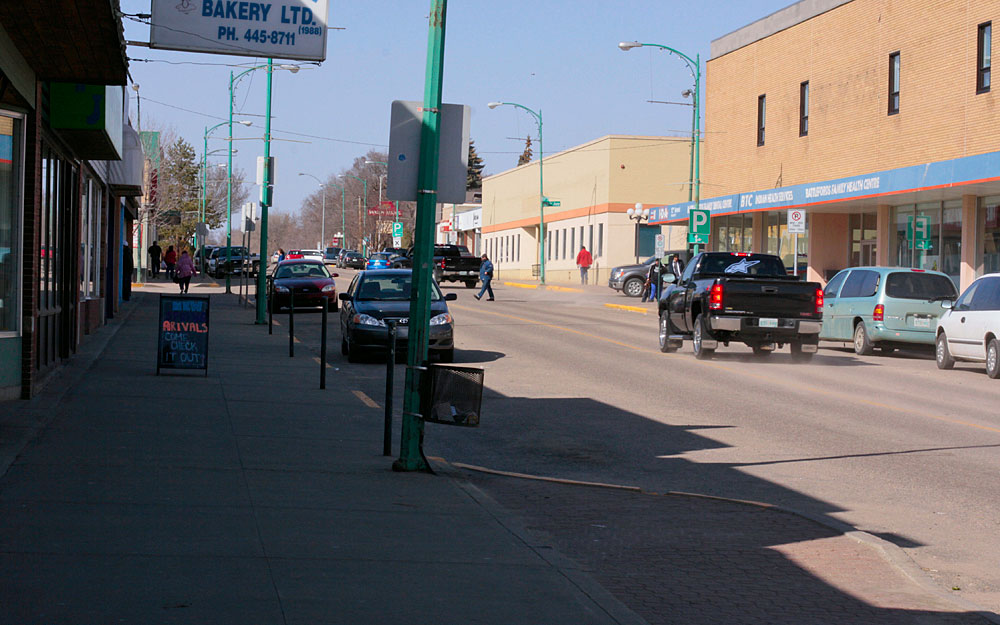 Main Street in North Battleford, Saskatchewan, Canada